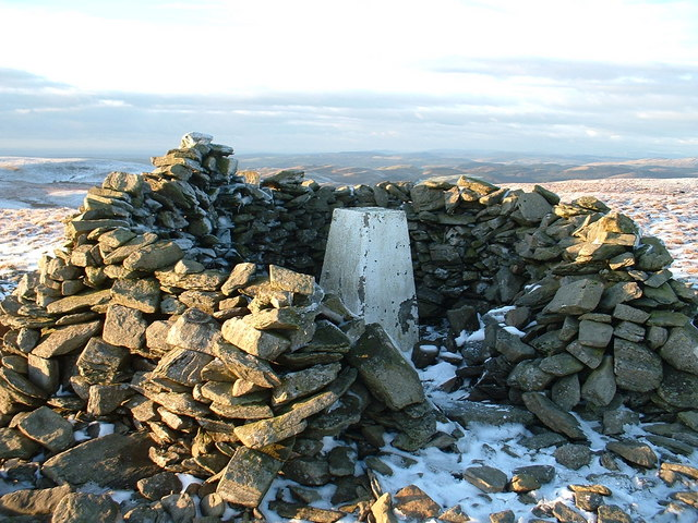 Llan Ddu Fawr summit. Cairn with trig point inside on the top of Llan Ddu Fawr (593m), right at the top of this square (just inside it by the Explorer map). Difficult location to access due to extensive bogs; it's best to get to when the bog is frozen, as here.